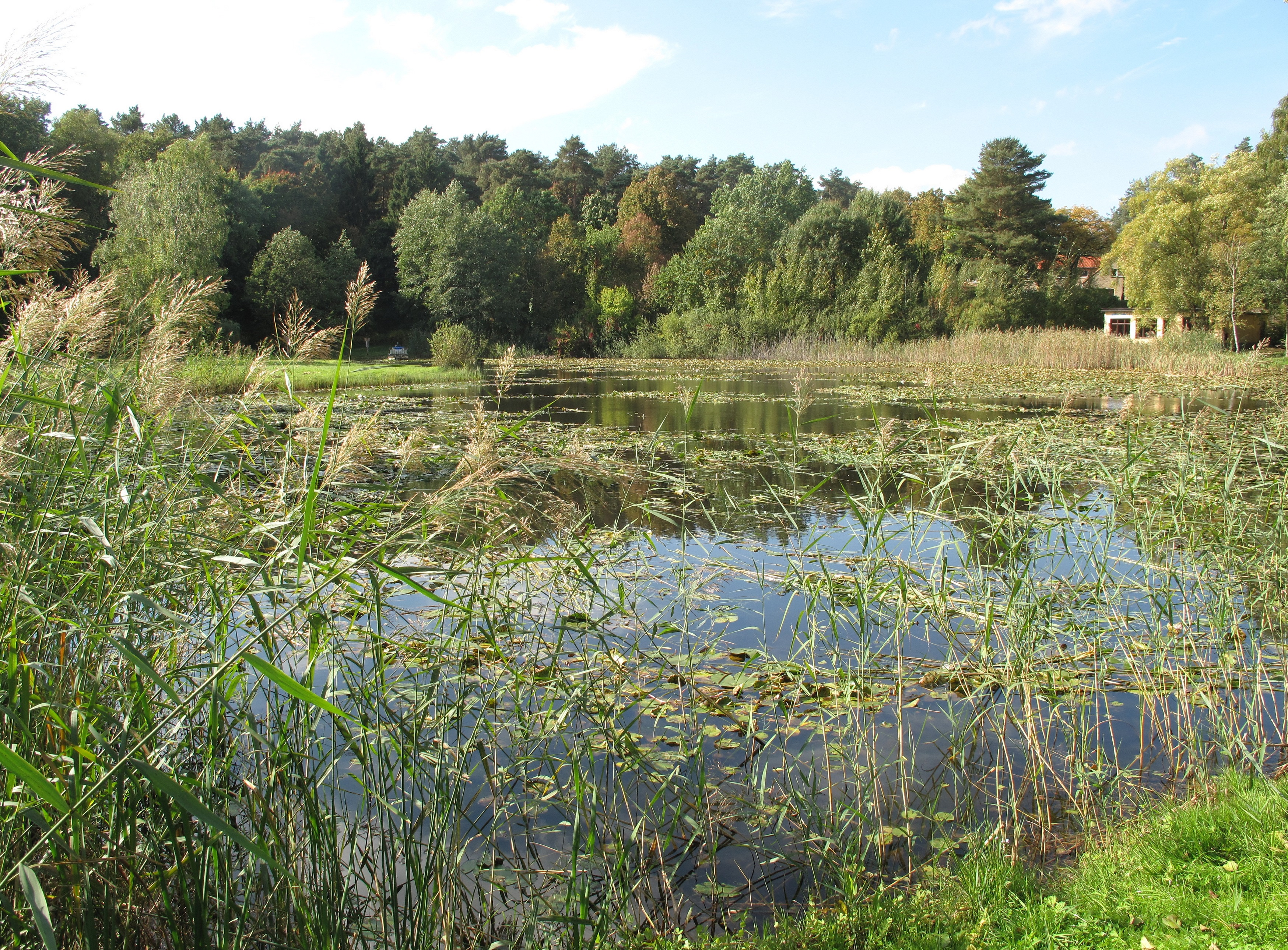 Pond in the landscape protected Hirschluch. The pond is situated on the site of the „Ev. Jugendbildungs- und Begegnungsstätte Hirschluch“ (Protestant Youth Education and Meeting Centre Hirschluch) in the town Storkow, District Oder-Spree, Brandenburg, Germany. The Hirschluch is part of the Dahme-Heideseen Nature Park and of the same named Landschaftsschutzgebiet (german for: landscape protection area). The pond is the spring of the largely dried-out Hirschluchgraben (ditch), which is designated by the topographic survey office Brandenburg as part of the Rieploser Fließ.